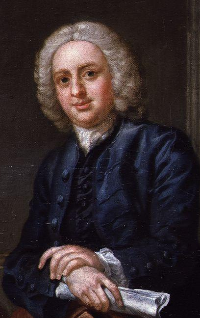 Detail of Maurice Greene; John Hoadly, by Francis Hayman.